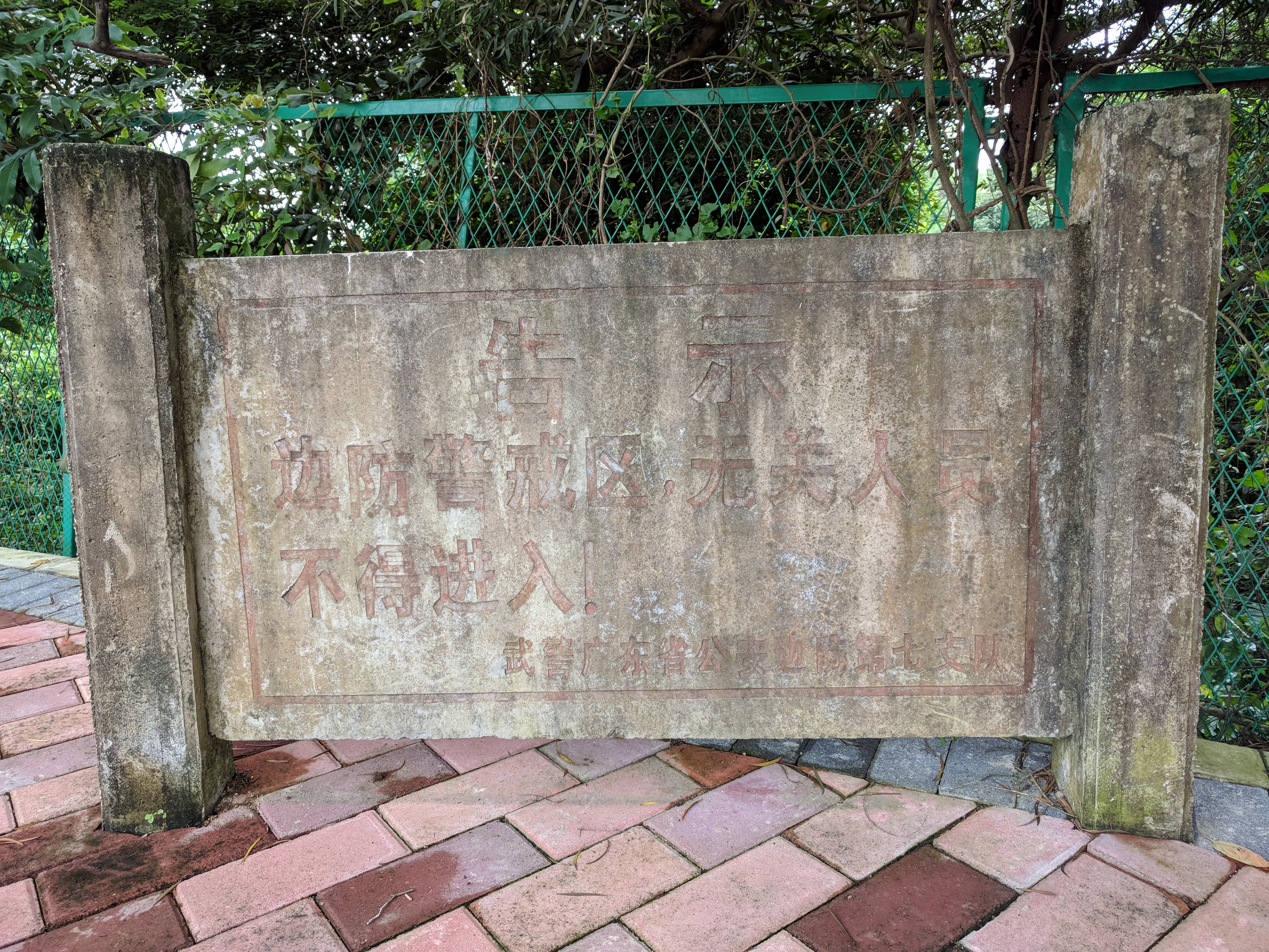 Warning Sign of Secondary Checkpoint in Shenzhen in SUSTech